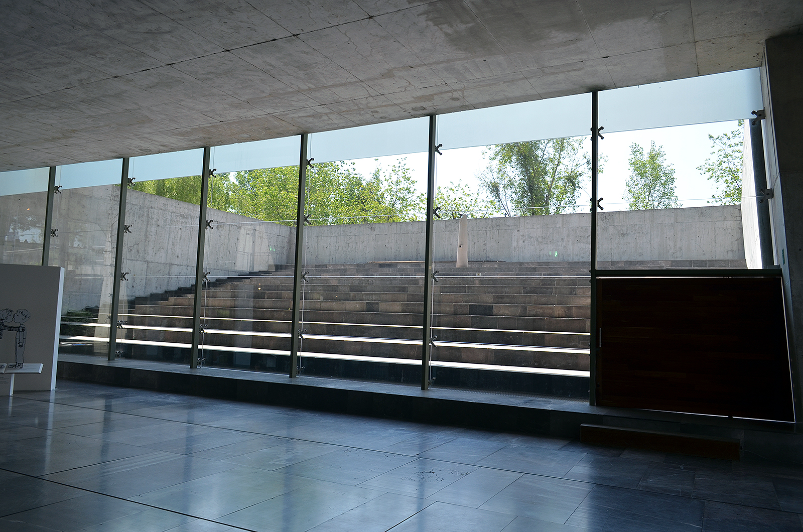 The library is located in downtown Delegación Cuauhtémoc at the Buenavista train station where the metro, suburban train, and metrobus meet. It is adorned by several sculptures by Mexican artists, including Gabriel Orozco's Ballena (Whale), prominently located at the centre of the building.